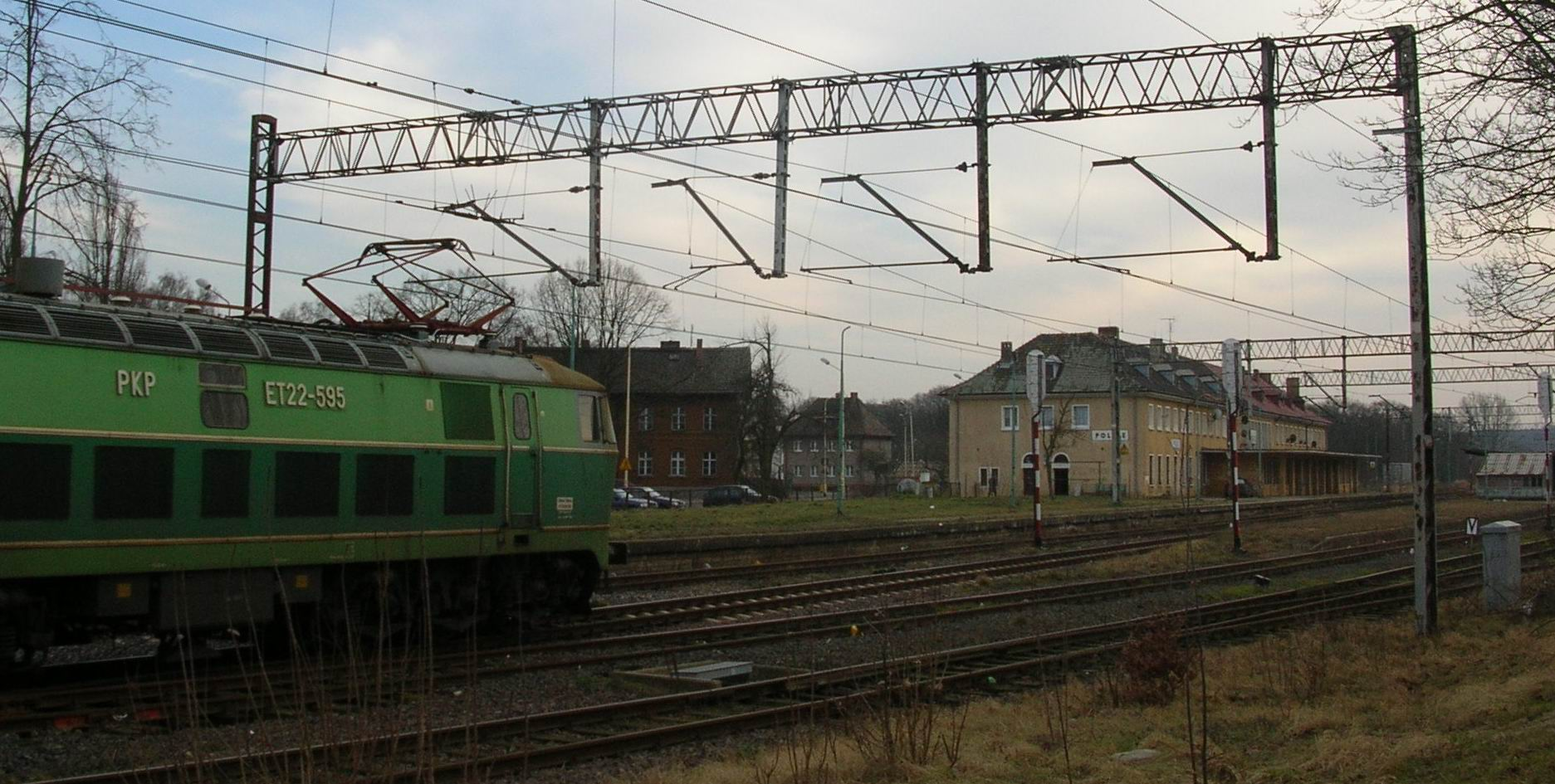 The Main Railway Station in Police, a town in Pomerania, Poland / Police, Dworzec Główny